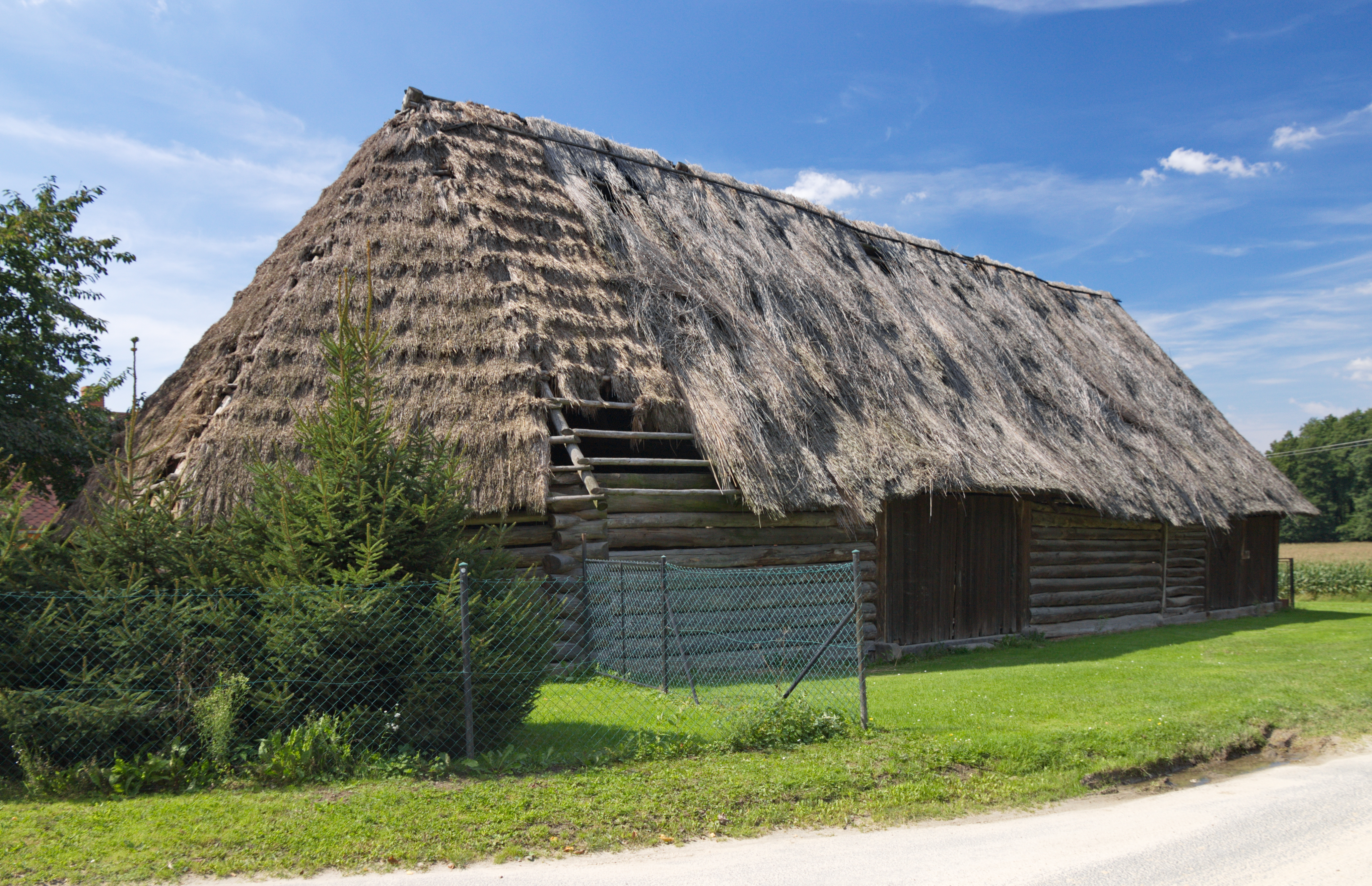 Barn, Dolní Lutyně. Moravian-Silesian Region, Czech Republic.